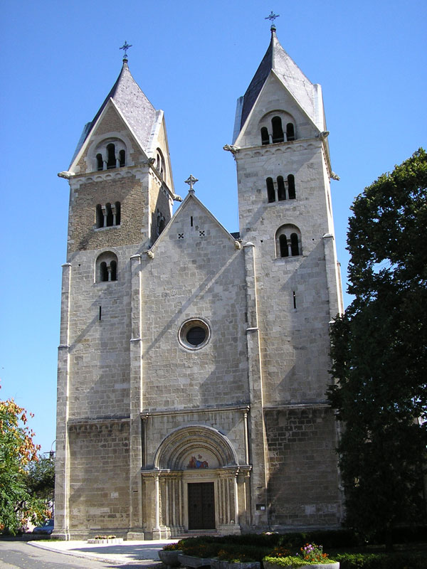 The Roman Catholic Church of Saint James in the village Lébény, Hungary